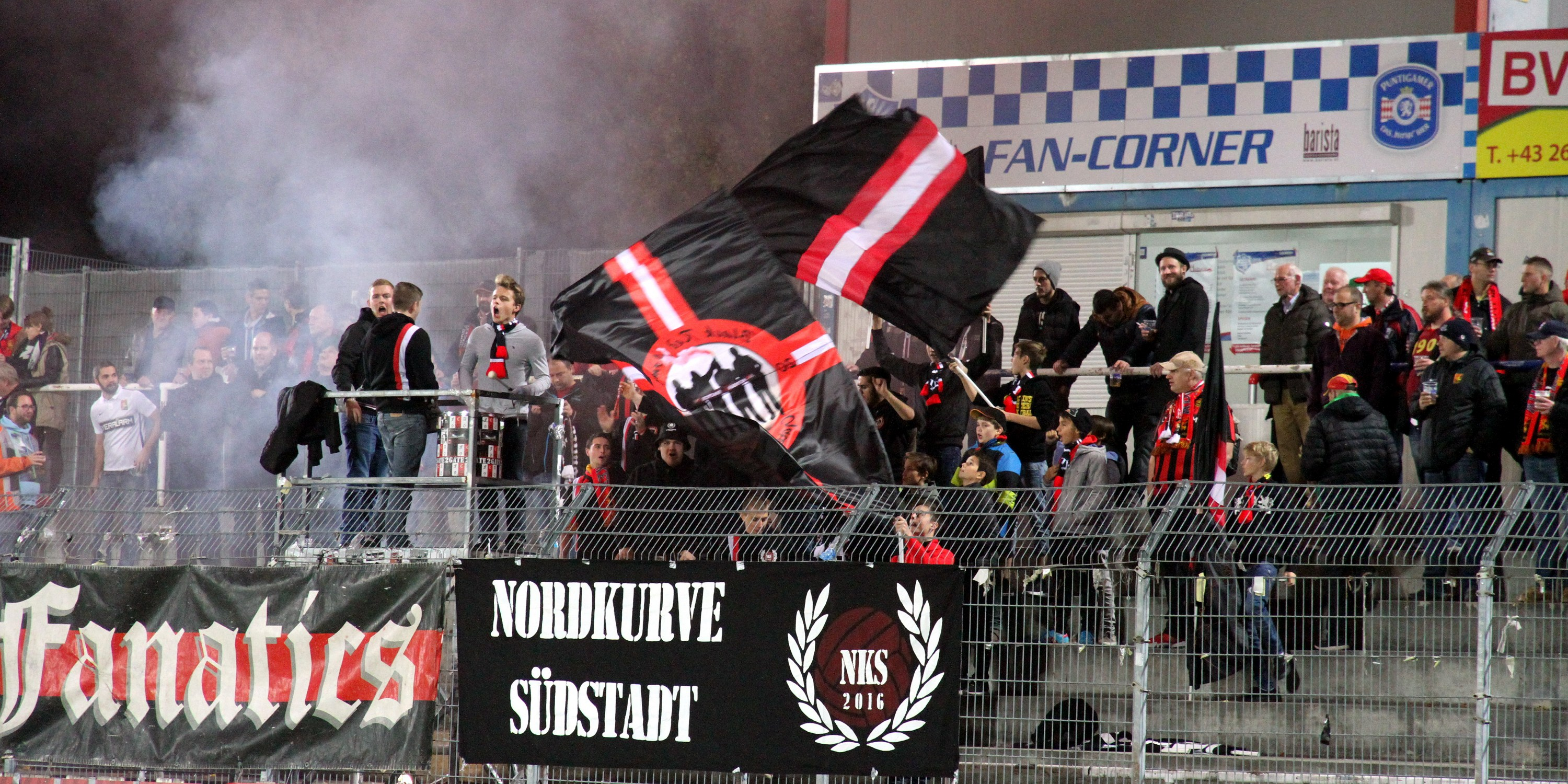 2016–17 Austrian Cup third round: SC Wiener Neustadt (white shirts) vs. FC Admira Wacker Mödling (red shirts) 1-3 (0-2) at 2016-10-25 in the Stadion in Wiener Neustadt — The photo shows Supporters of FC Admira Wacker Mödling.